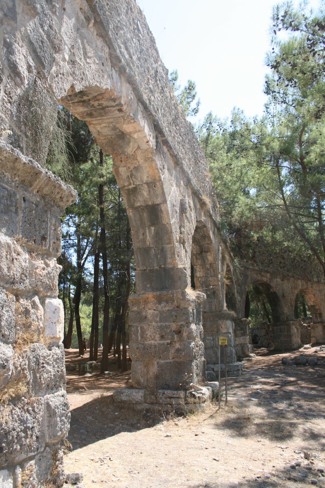 Aqueduct in Phaselis